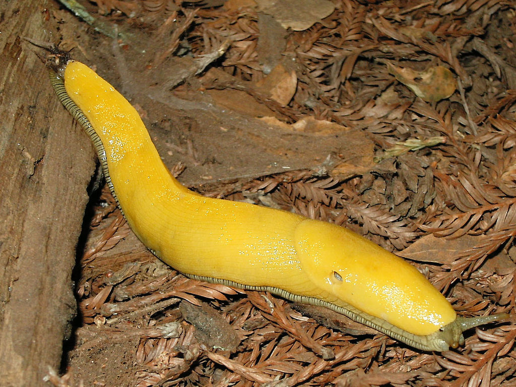 Picture of a banana slug taken on the campus of UC Santa Cruz (UCSC) in front of the Baskin Engineering building.